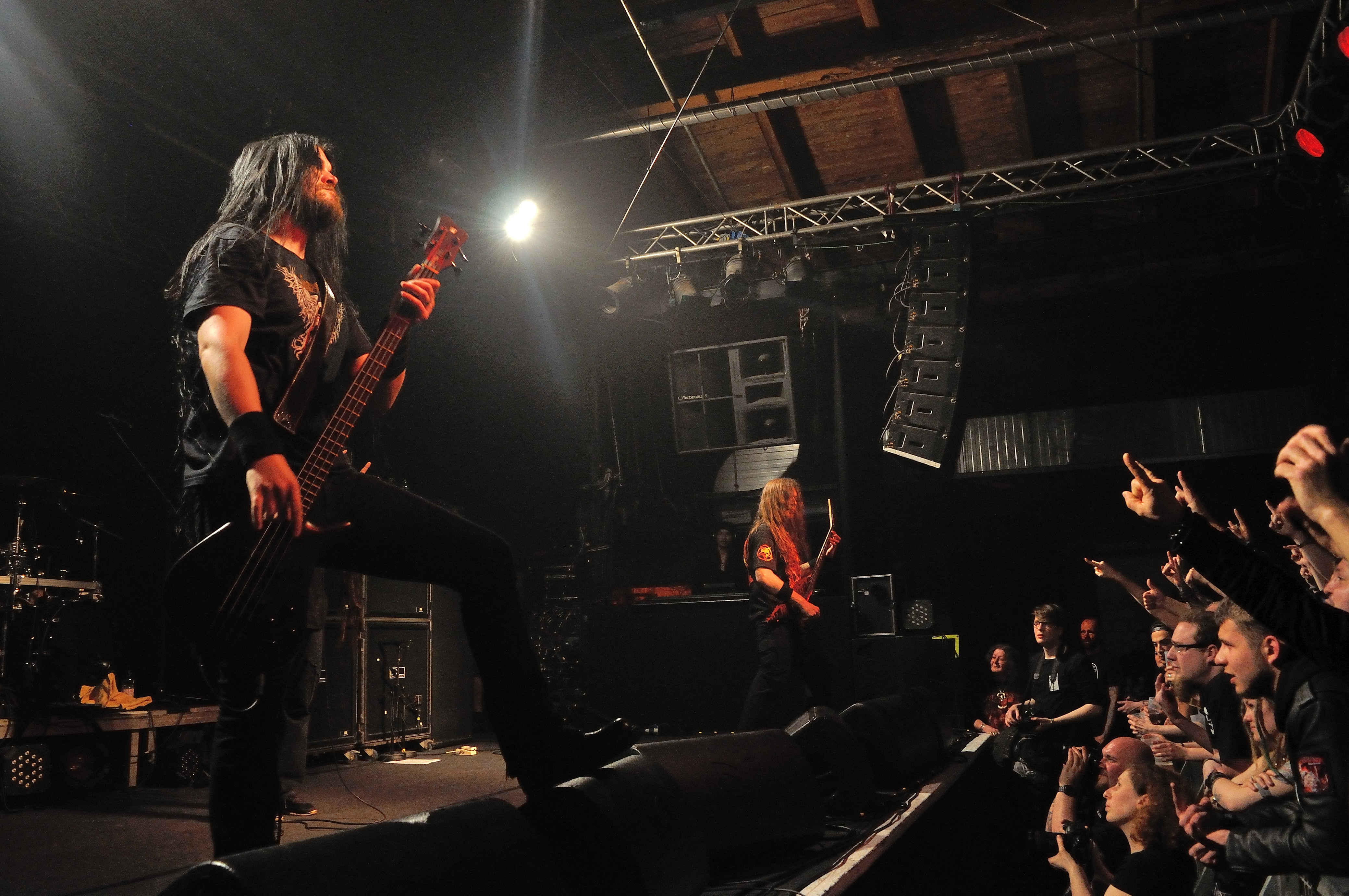 Six Feet Under at Hatefest 2015 in Berlin.